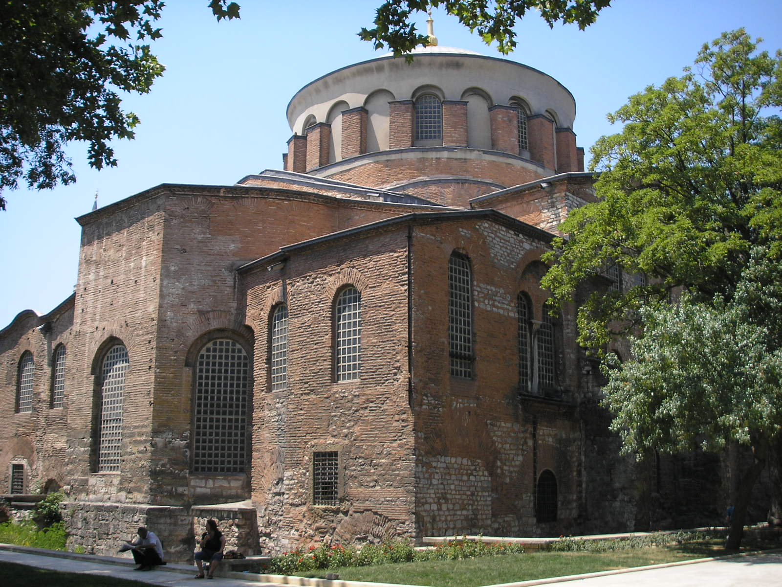 The Hagia Eirene church from outside, next to Topkapi Palace.